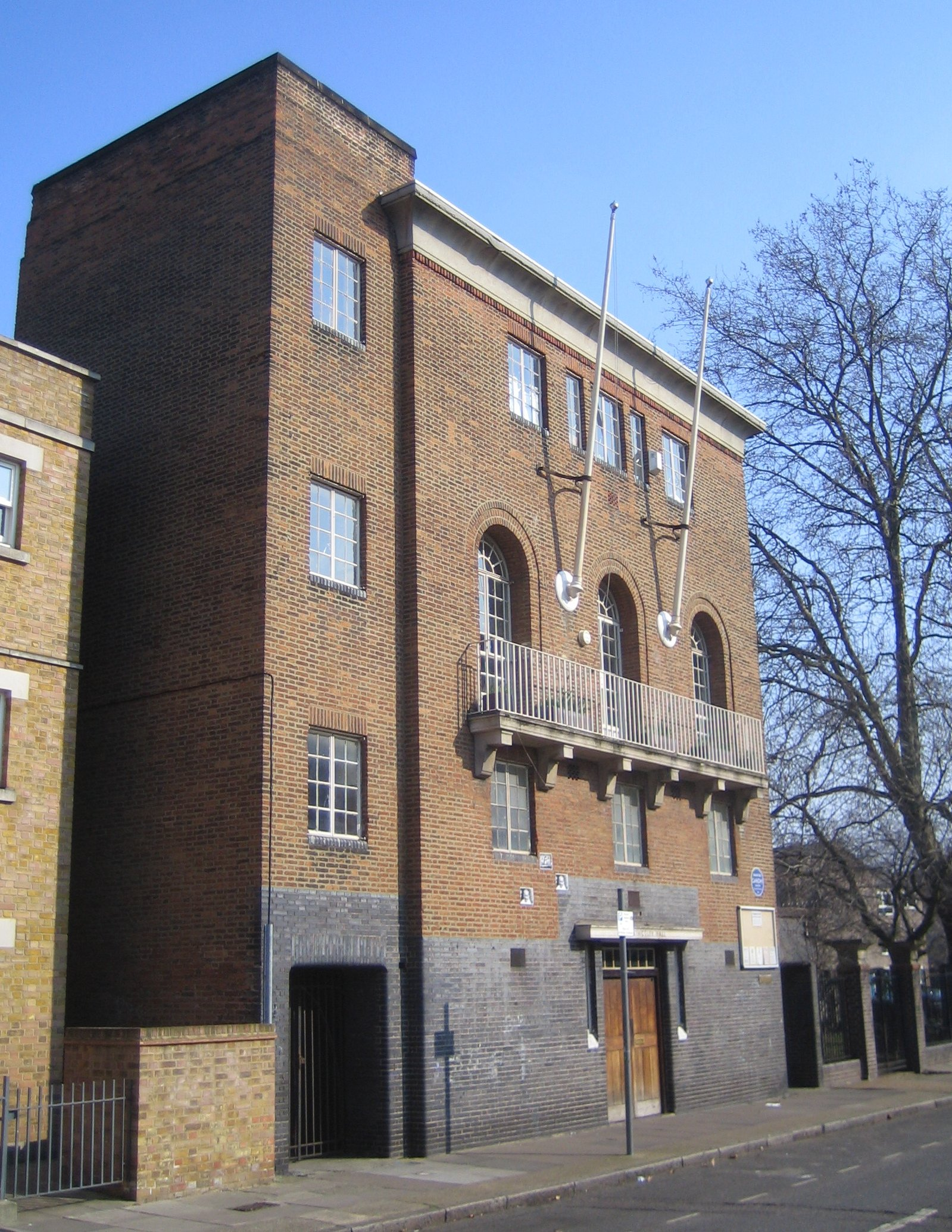 Kingsley Hall, London, E3